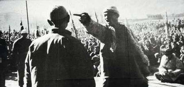 This picture was taken at 1946, the copyright has expired